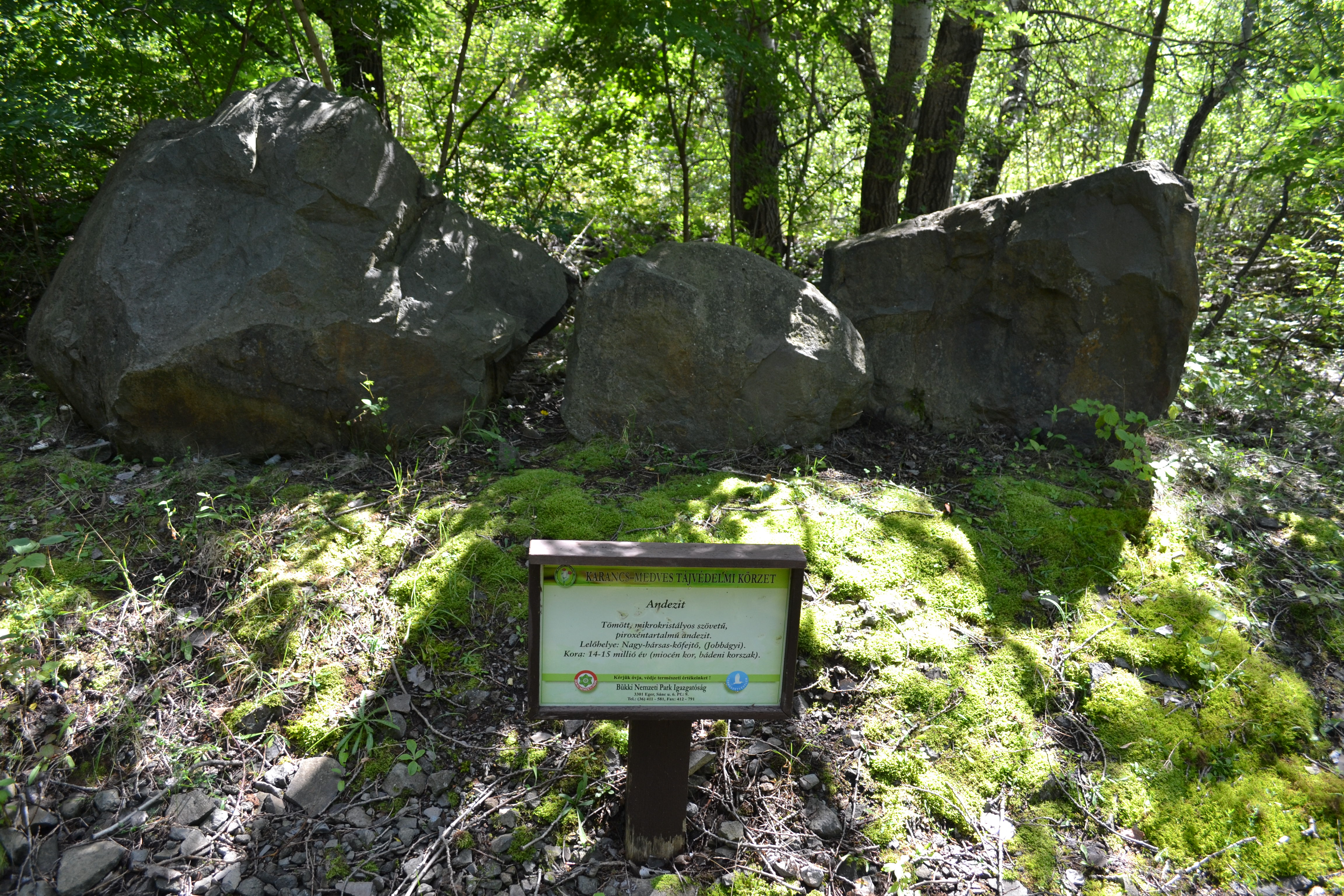 Somoskő Lapidary, Karancs-Medves Landscape Protection Area (Hungary)